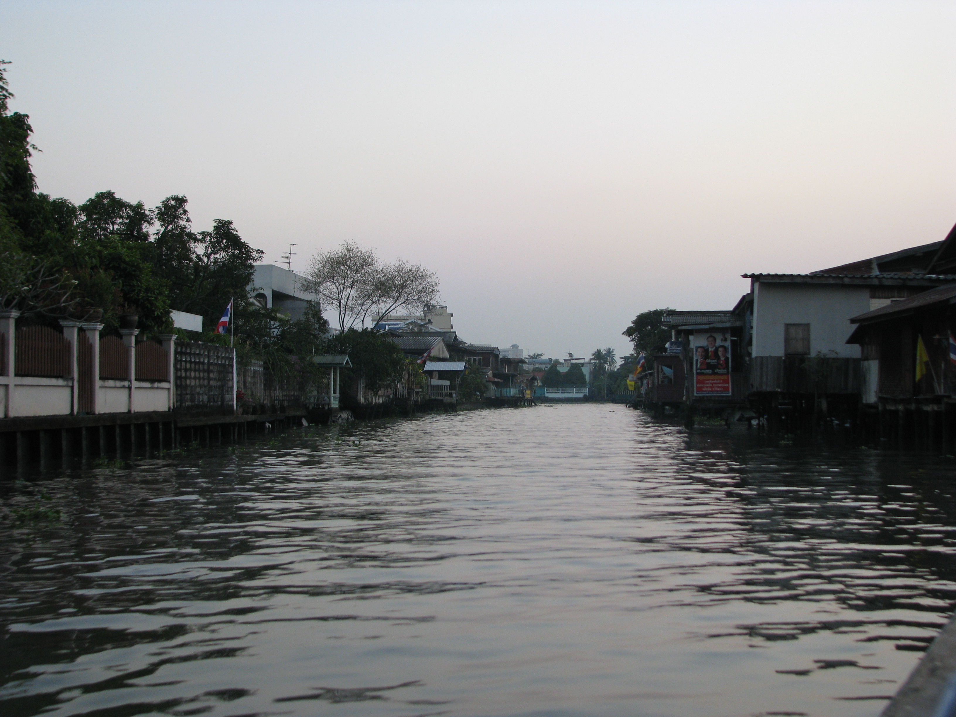 What we found slightly funny though is how much Chennai's streets looked very much like this during our heavy monsoon this season! The best part of taking a cruise of Bangkok's canals is seeing areas for which the canals are their main streets and thoroughfares. I wish it had been light longer to capture more of this area.